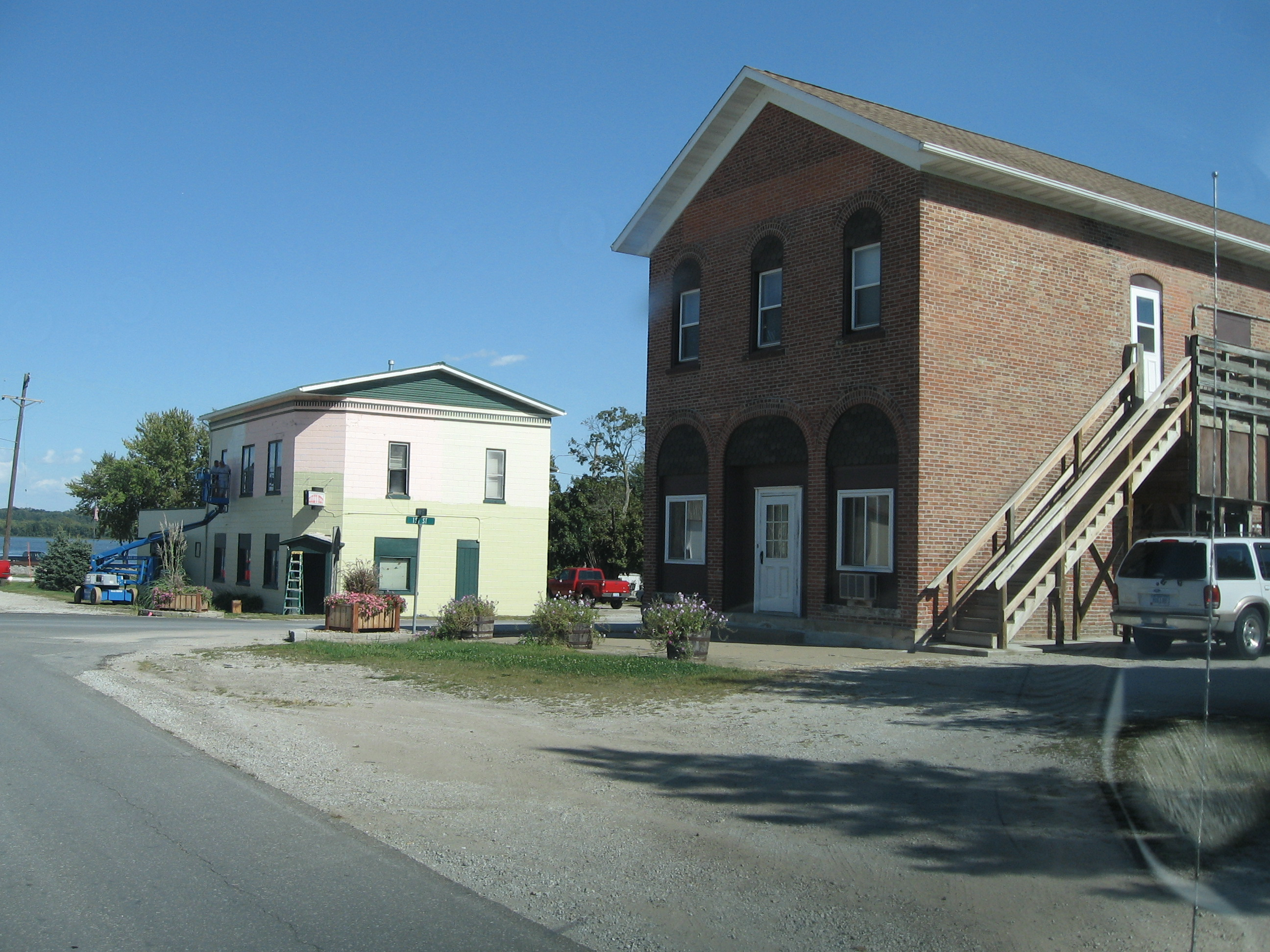 Montrose, Iowa. Yep, I took it through my windshield, I'm ashamed to admit. This was before I became serious about photographing the small towns of Iowa. Billwhittaker (talk) 17:38, 7 January 2009 (UTC)